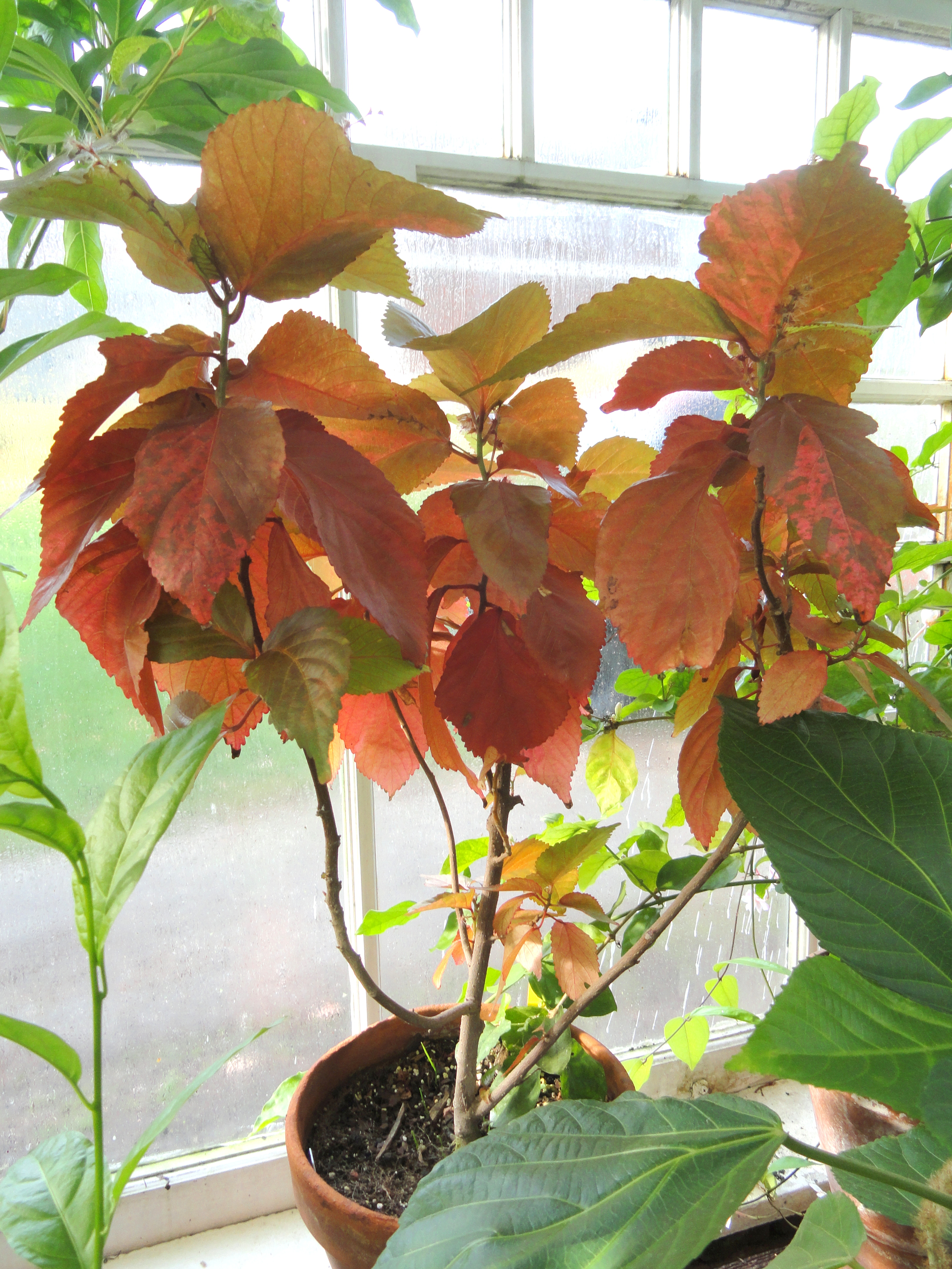 Botanical specimen in the Talcott Greenhouse, Mount Holyoke College, South Hadley, Massachusetts, USA.